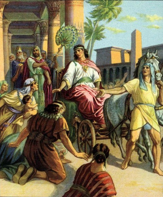 Joseph made ruler in Egypt